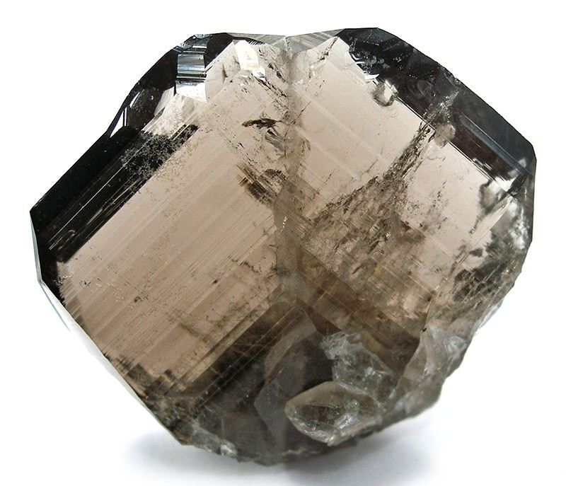 Quartz Locality: Mina Tiro Estrella, El Capitan Mts, Capitan District, Lincoln County, New Mexico, USA (Locality at ) Size: 4 x 3.6 x 1.2 cm. Collected by Dick Jones over 30 years ago, these smoky twins remain one of the most impossible-to-obtain of all American finds, notable for the aesthetics, unique form and style and sheer rarity of specimens. This is an outstanding miniature, with brilliant lustre, gemminess, and elegant chevron patterns that reflect light from many more angles than you would think - making the whole crystal more bright and noticeable. I have seen only a few of these for sale in the last decade, and none of this size which I liked so much. Ex. Dick Jones, Richard Hauck Collections.